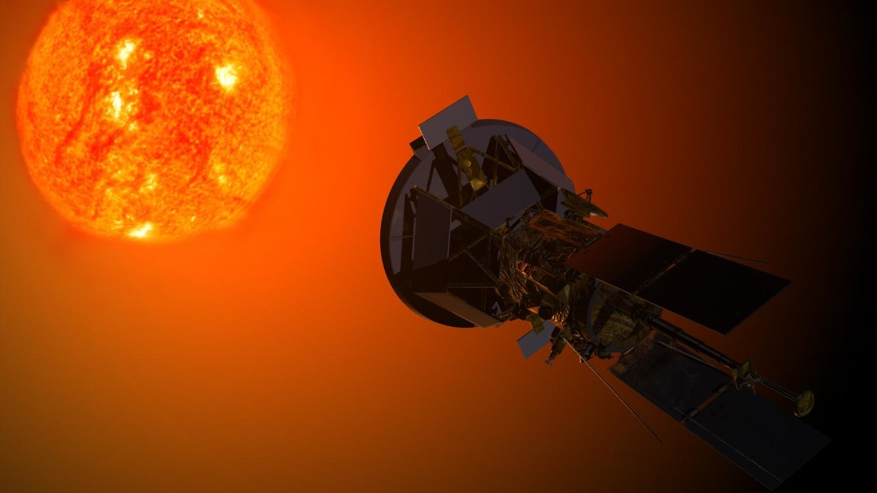 Artist impression of Solar Probe Plus observing the Sun